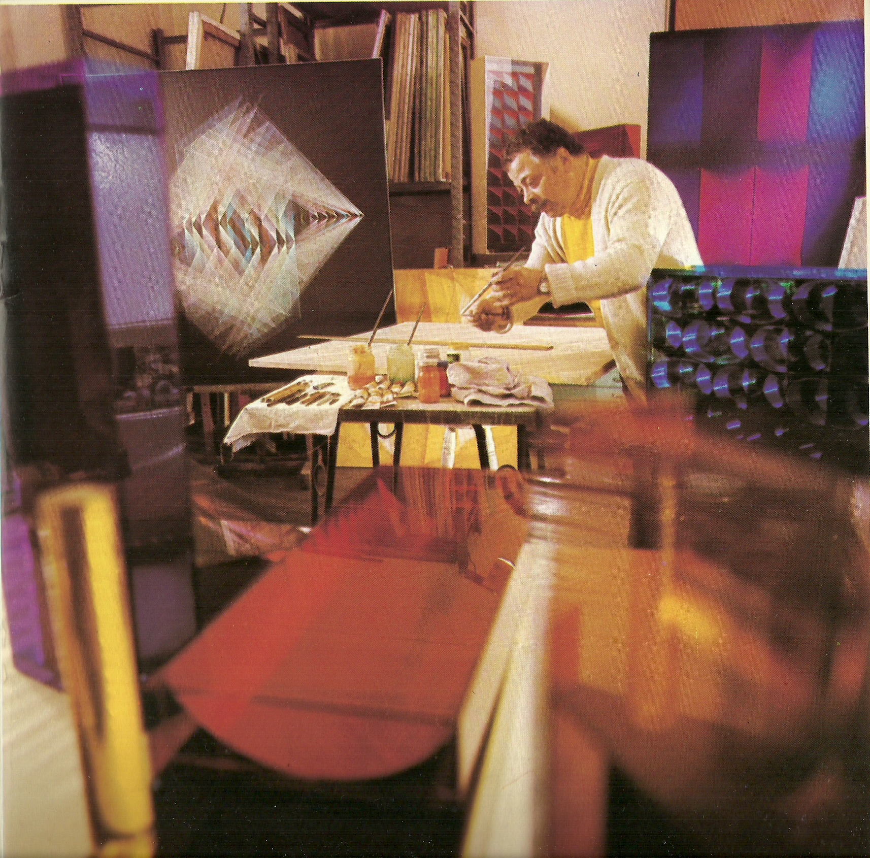 The image shows Miguel Angel Vidal Working at his atelier